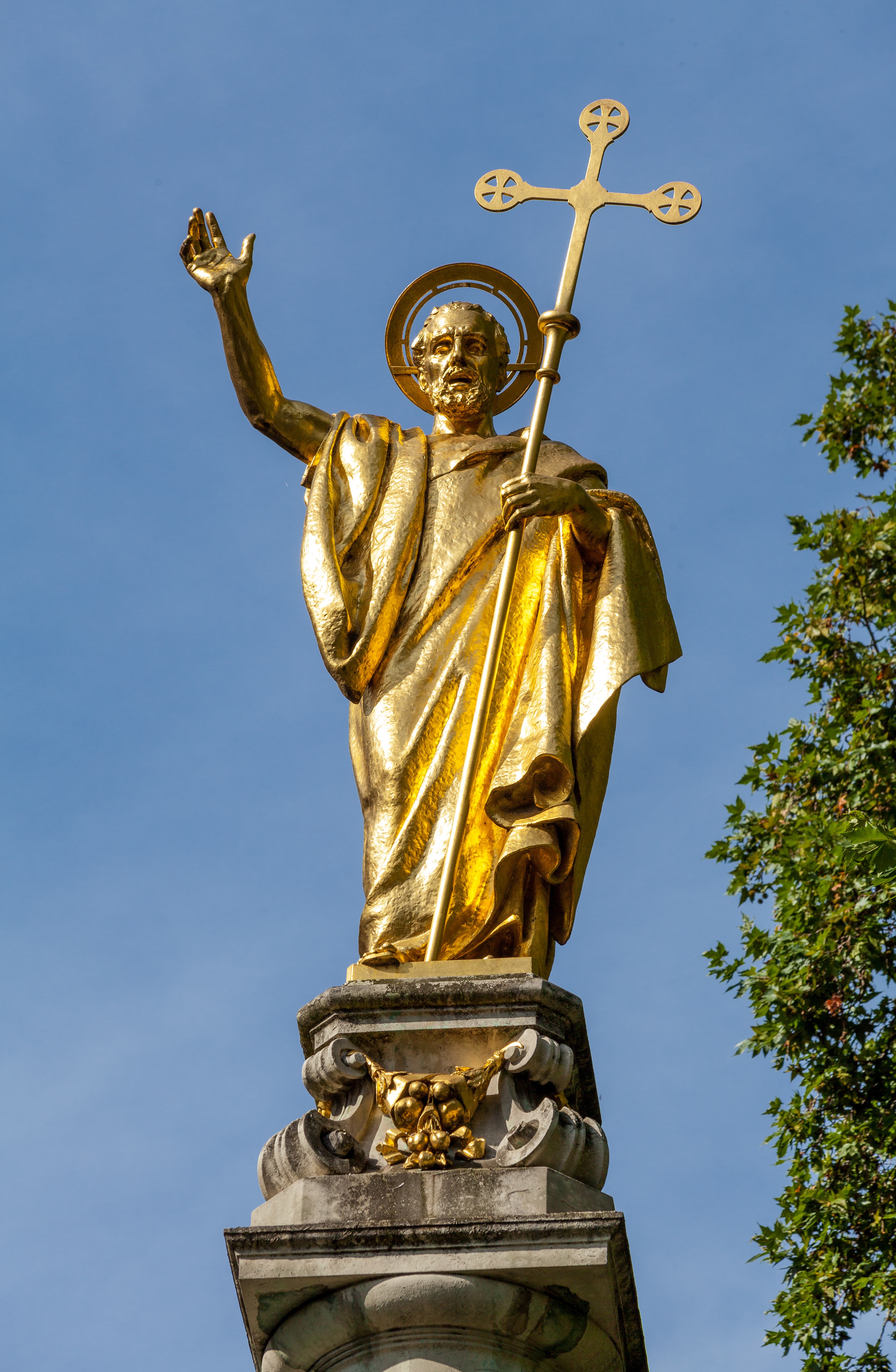 Statue atop of St Paul's cross.